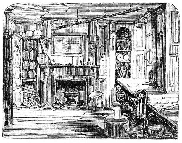 The haunted room at Cock Lane, as seen in MEMOIRS OF EXTRAORDINARY POPULAR DELUSIONS AND THE Madness of Crowds, 1852